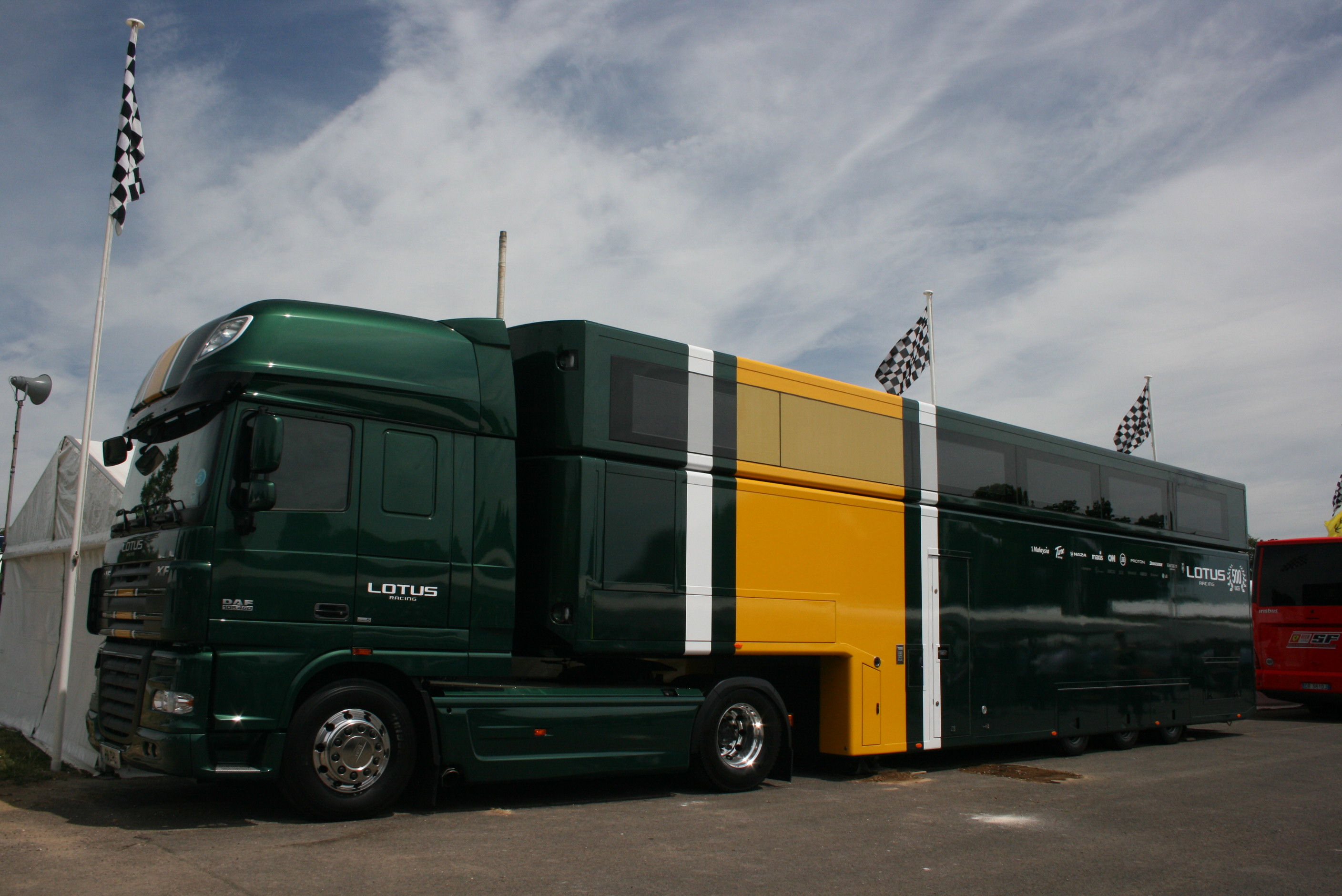 Goodwood Festival of Speed 2010: Lotus Racing's transporter (DAF XF 105.460)